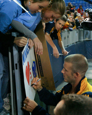 David Beckham signs autographs for fans after the first annual COPA Minnesota benefit game between the LA Galaxy and the Minnesota Thunder.